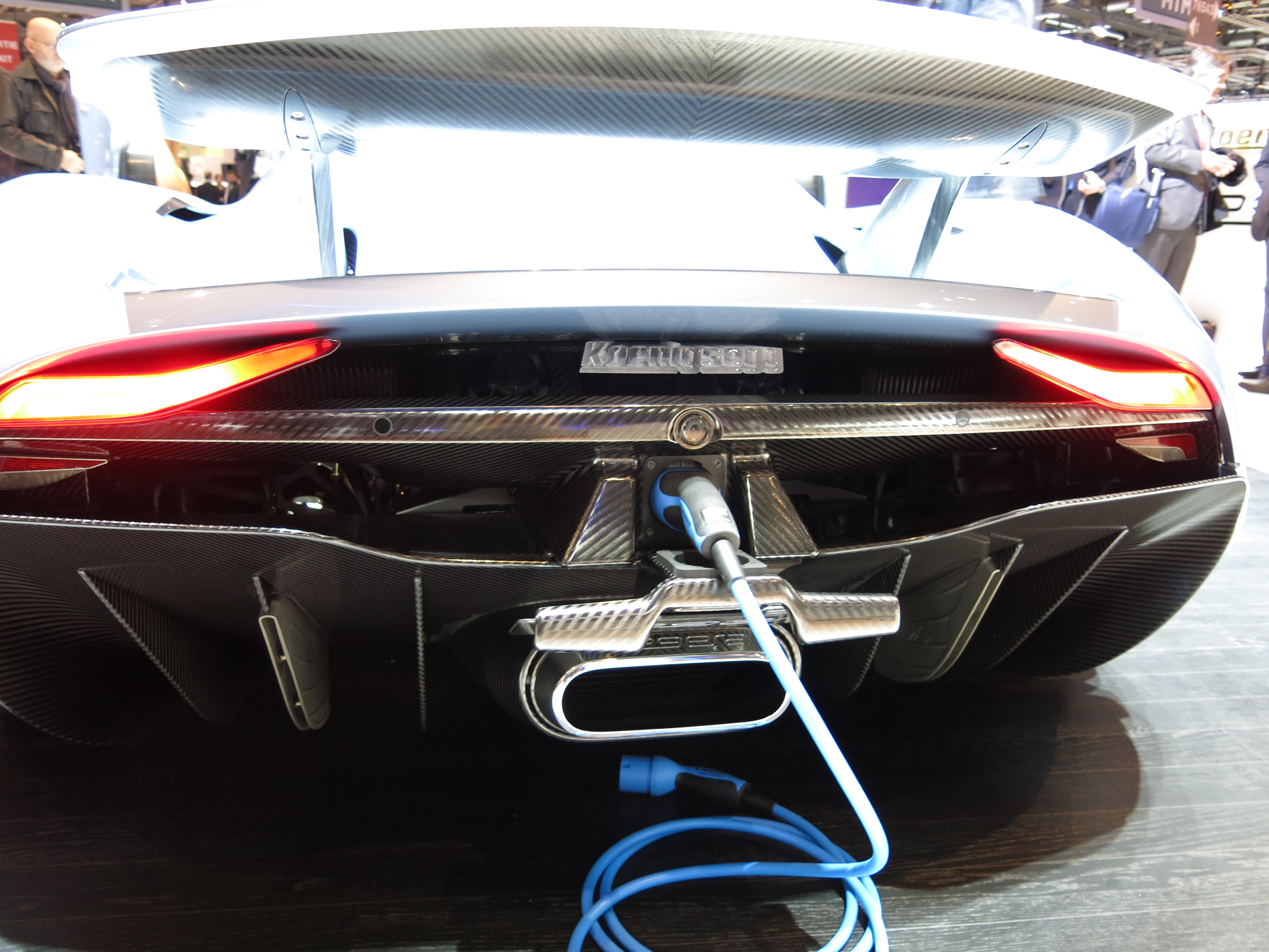 Geneva Motor Show 2015 (photo taken on the first press day)